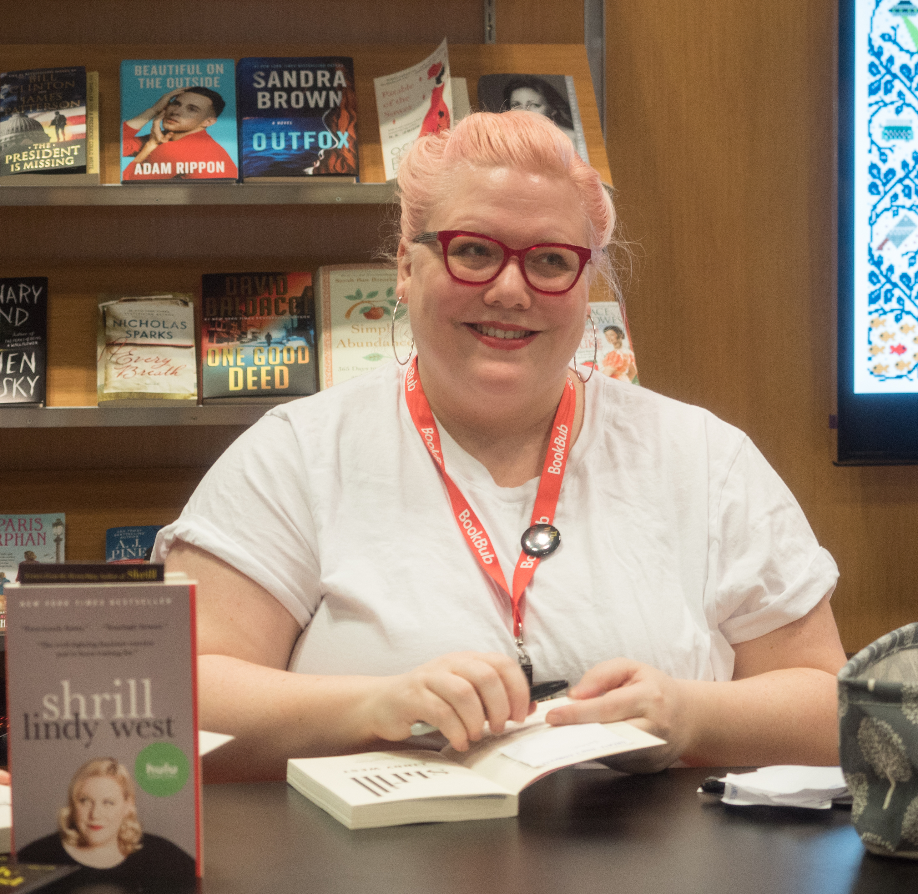 Lindy West at BookCon